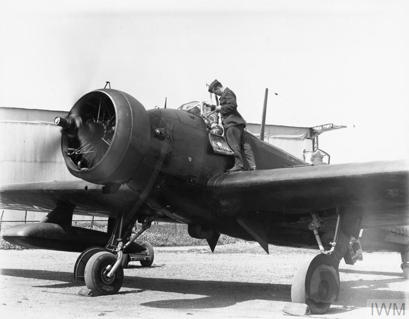 AIRCRAFT OF THE ROYAL AIR FORCE 1919-1939 The pilot of a Vickers Wellesley of 14 Squadron, Royal Air Force, is assisted with his harness prior to take off from RAF Amman in Transjordan.